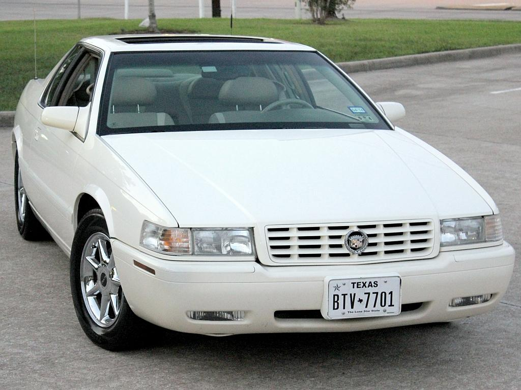 2002 Cadillac Eldorado ETC Collector's Edition #262 of 1596. The Last of the Line...